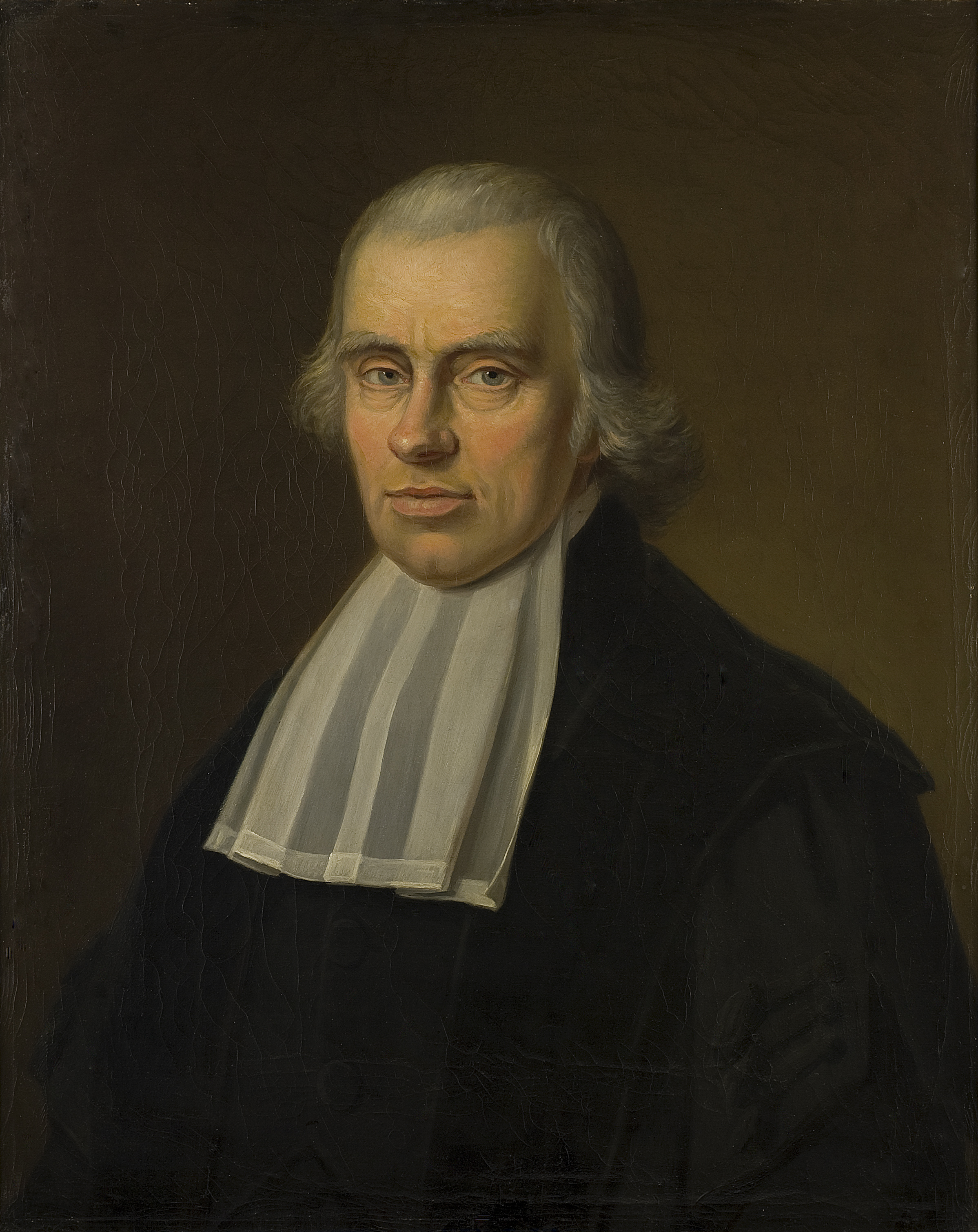 Probably copy After Wessel Lubbers (1755–1834) DescriptionDutch painter, pastellist and silhouette artistDate of birth/death 22 March 1755 29 September 1834 Location of birth/death Weener, Germany Groningen Work periodbetween circa 1770 and circa 1834 date QS:P,+1500-00-00T00:00:00Z/6,P1319,+1770-00-00T00:00:00Z/9,P1326,+1834-00-00T00:00:00Z/9,P1480,Q5727902Work location Groningen (1807-1834)Authority control : Q2839334 VIAF: 287848571 ISNI: 0000 0003 9353 9007 DBNL: lubb010 BPN: 70545609 RKD: 51123 creator QS:P170,Q4233718,P1877,Q2839334 pastelmedium QS:P186,Q189085